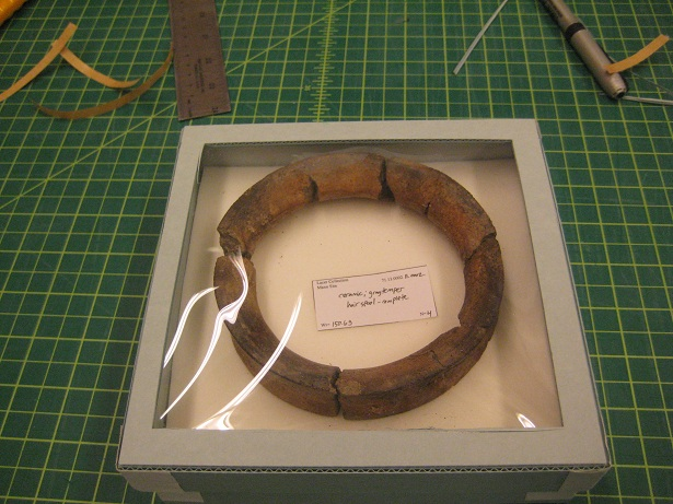 This is a ceramic ring from the Indiana State Museum that is housed atop an ethafoam pad inside a a blue board box and lid with a clear acrylic display.